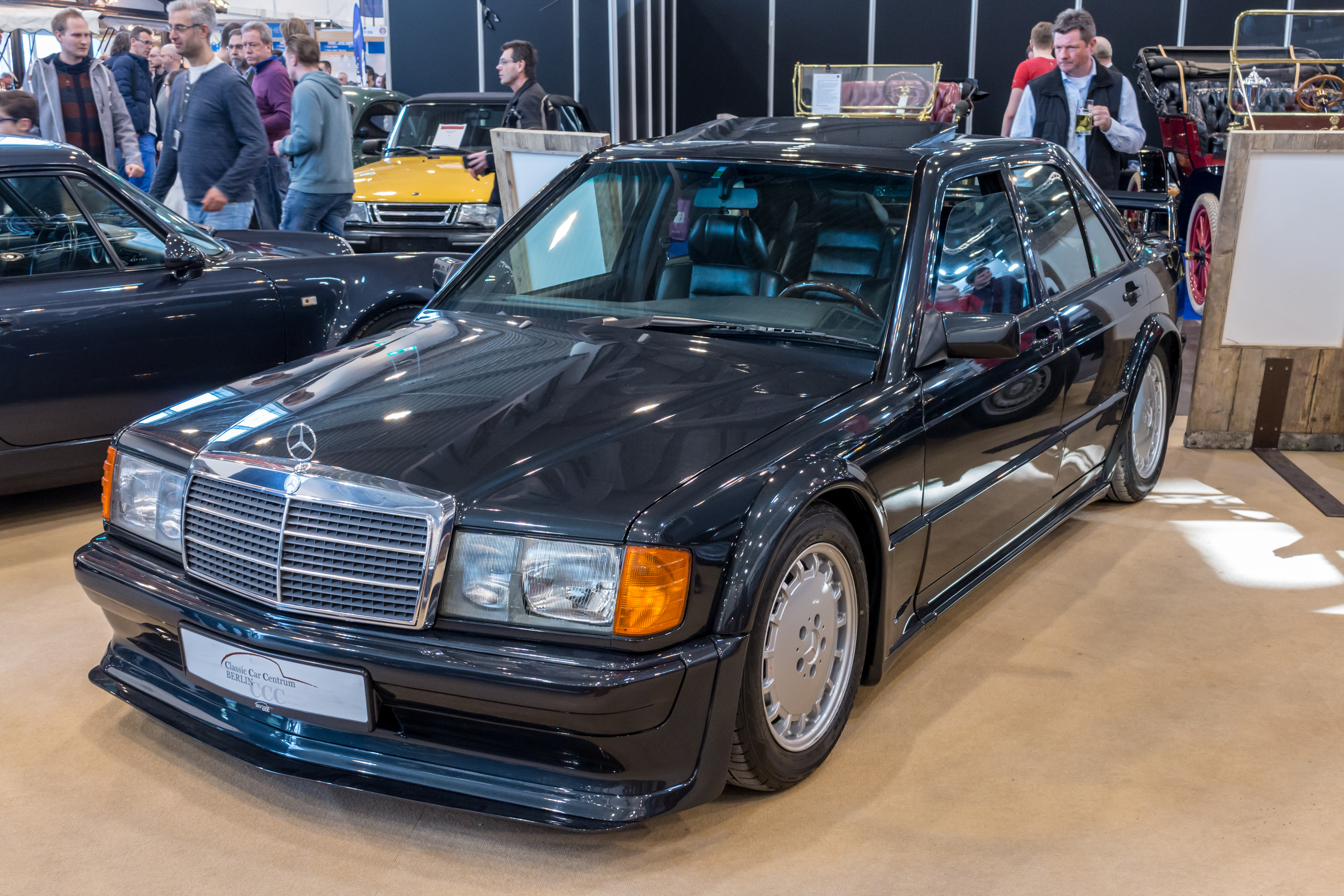 Techno Classica 2018, Essen